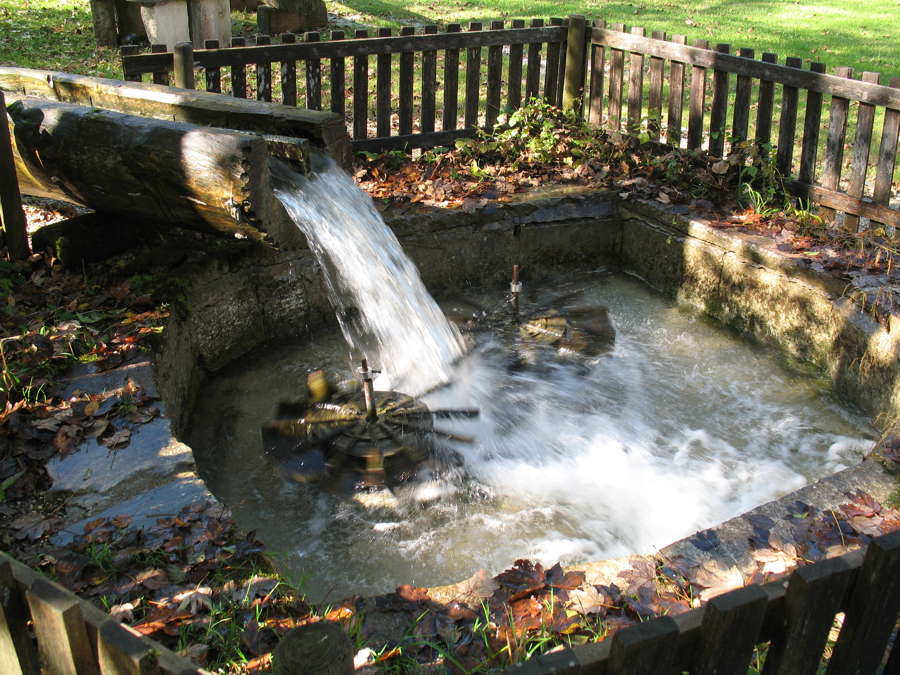 A so called “Kugelmühle” (polishing rough stones into perfect spheres) in the village of Fürstenbrunn in Salzburg